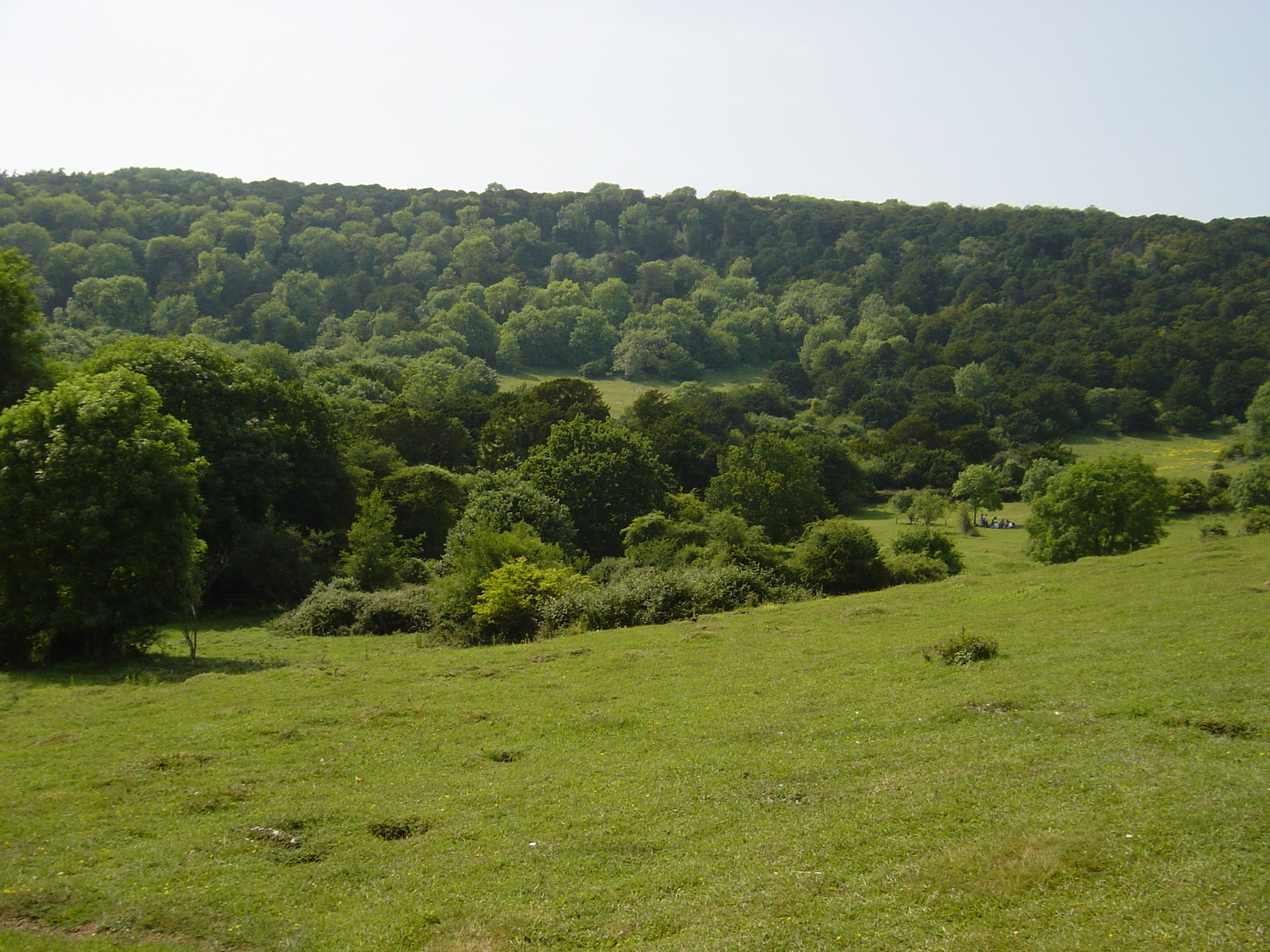 View into Kingley Vale, West Sussex, England